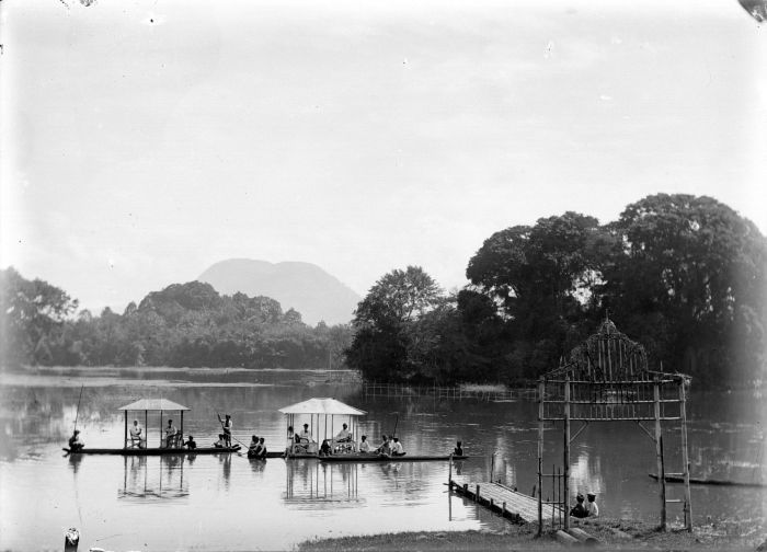 Pleasure boats at the Lake of Leles